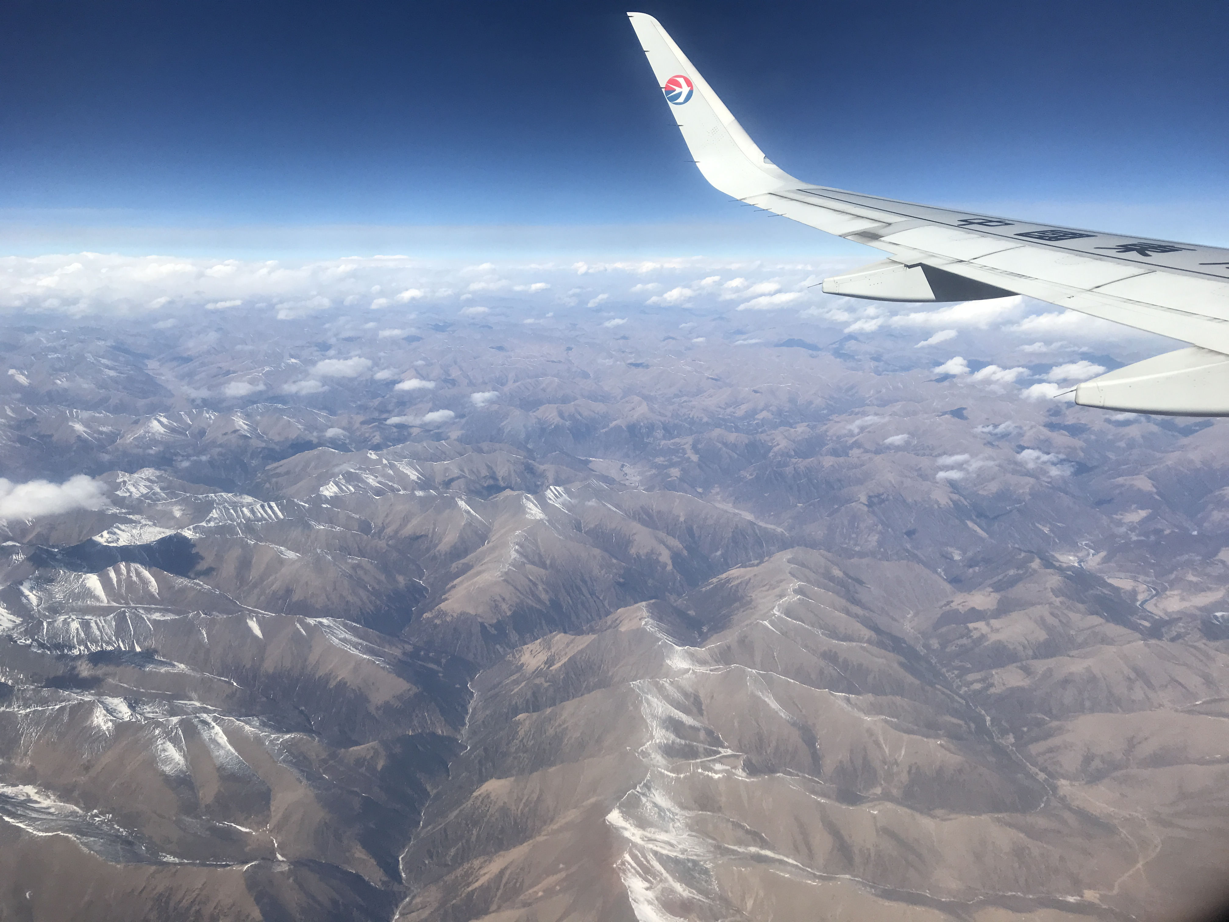 Landscape to the northwest of Banbar County, Chamdo, Tibet, taken from the flight from Lhasa to Xining.